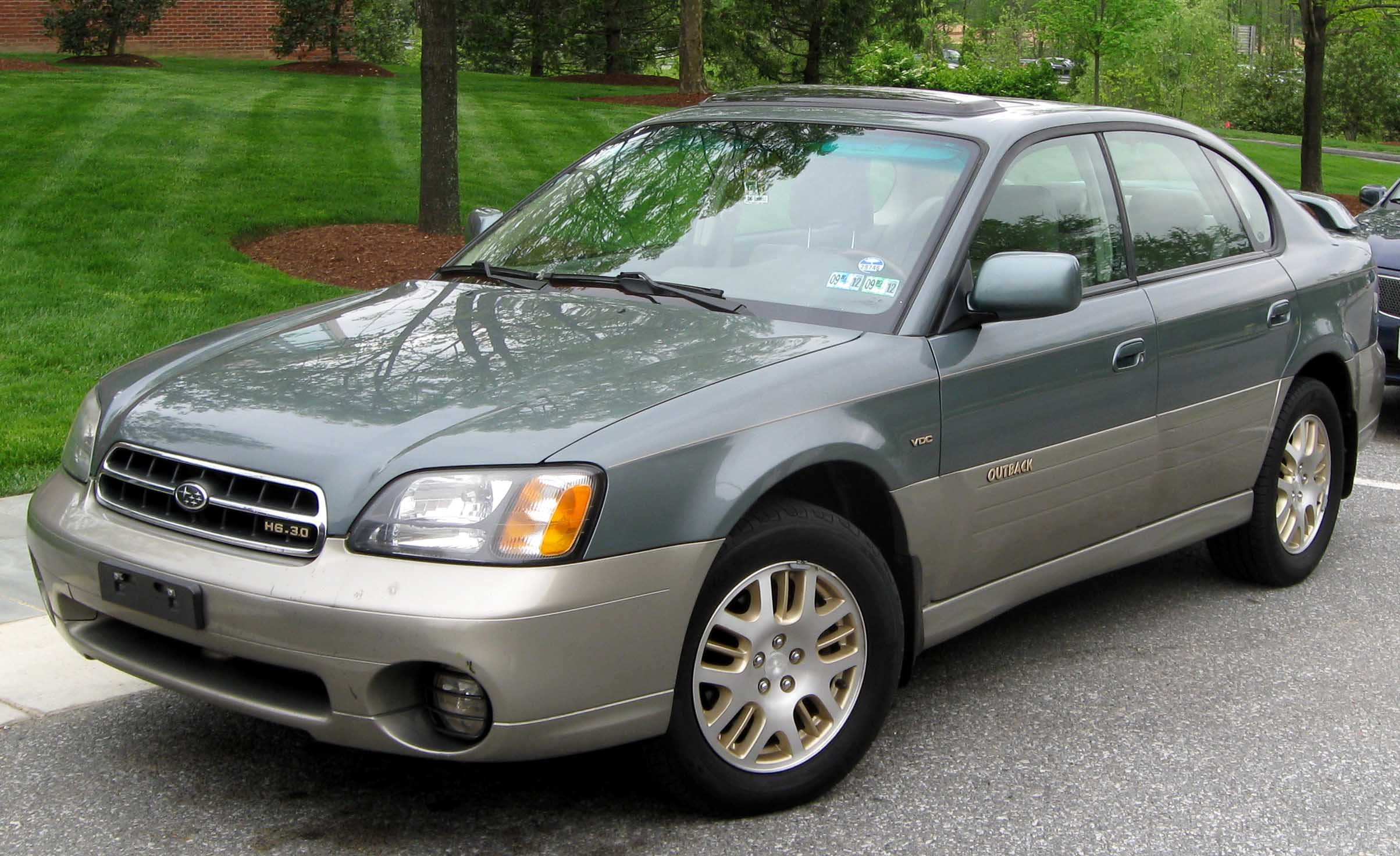 2000-2004 Subaru Outback photographed in College Park, Maryland, USA.